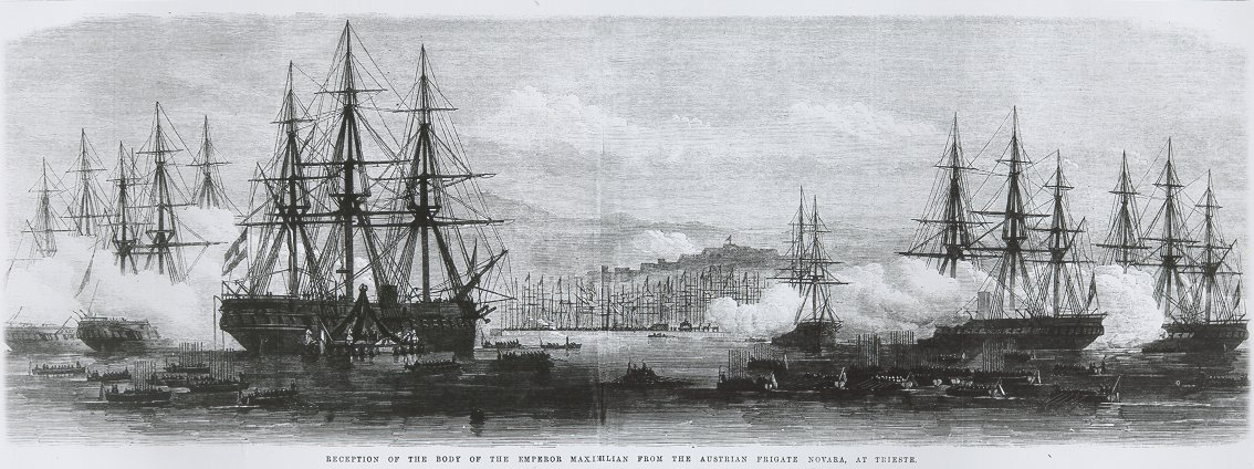 The reception of the body of Emperor Maximilian from the Novara at Trieste harbour.